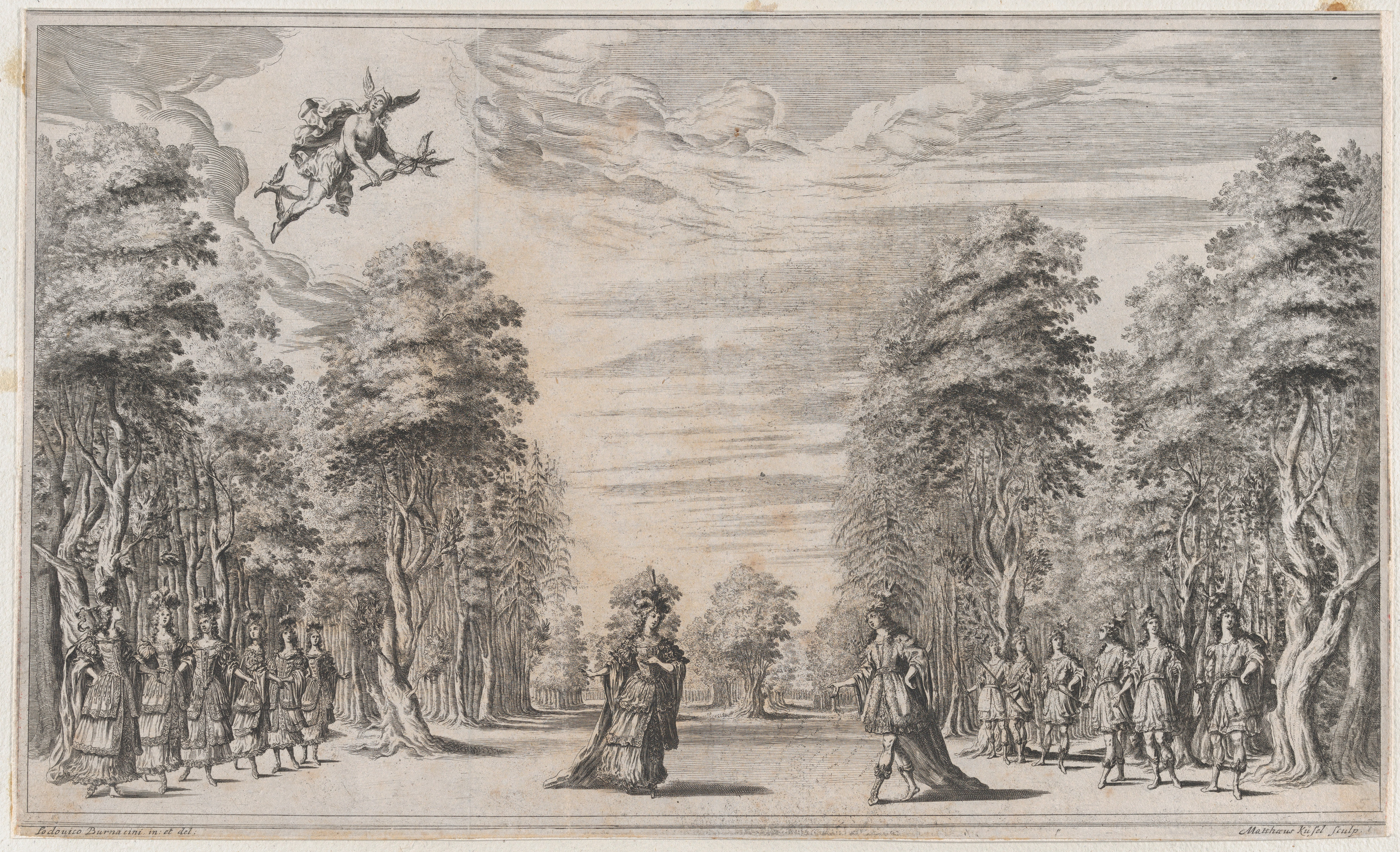 Print, Fete, Ornament & Architecture; Prints